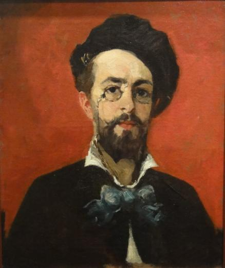 Frederic Samuel Cordey